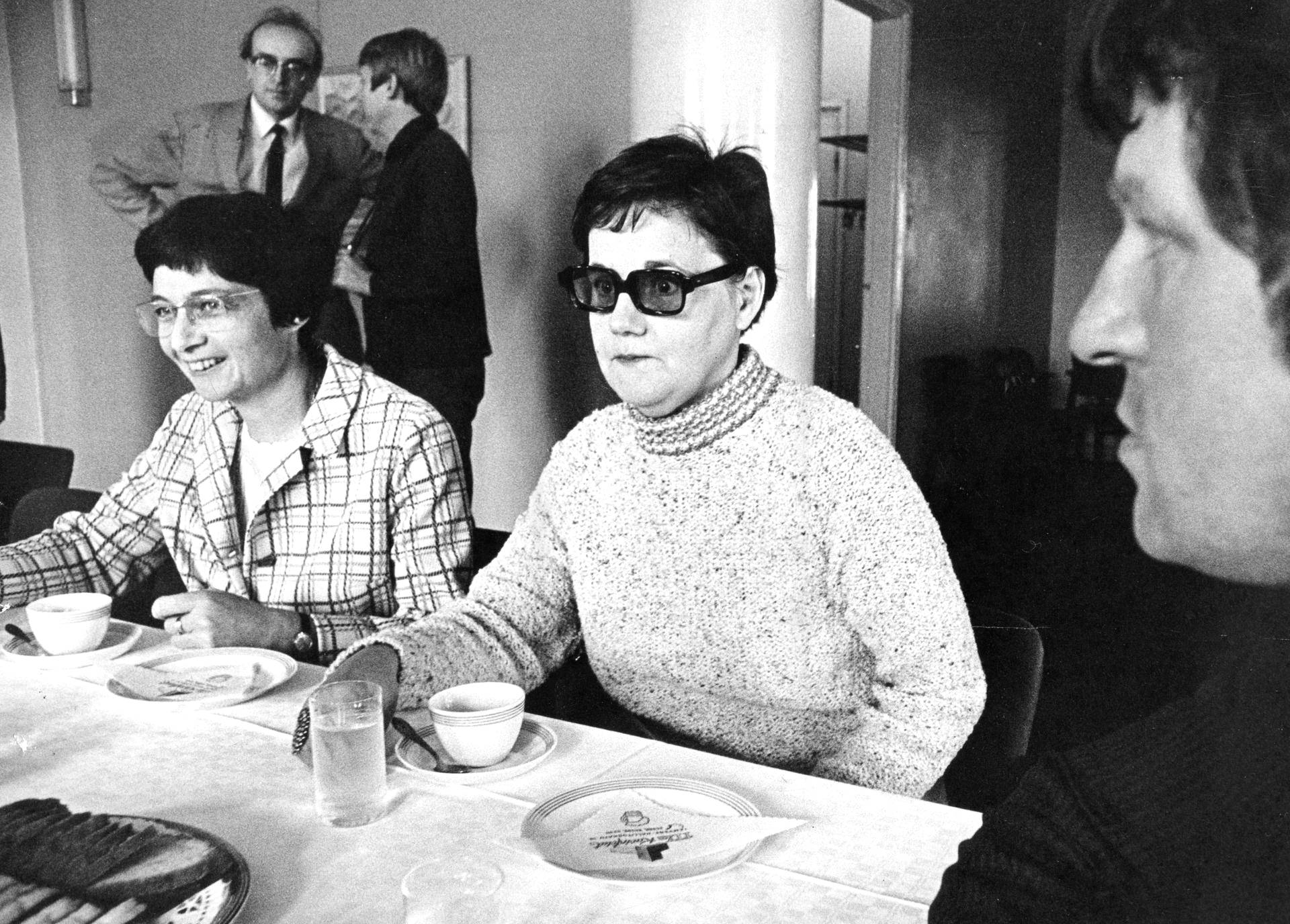 Photograph of the Finnish poet and playwright Eeva-Liisa Manner (middle) at the rehearsal of her play Poltettu oranssi. To her left, the director Lisbeth Landefort; to her right, the actor Veikko Sinisalo.